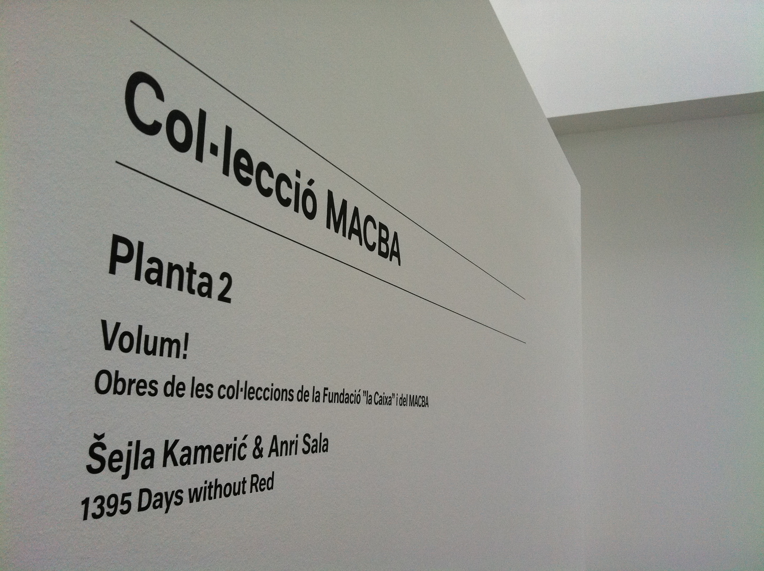 Vernisage of Volum! exhibit at MACBA. November 2011